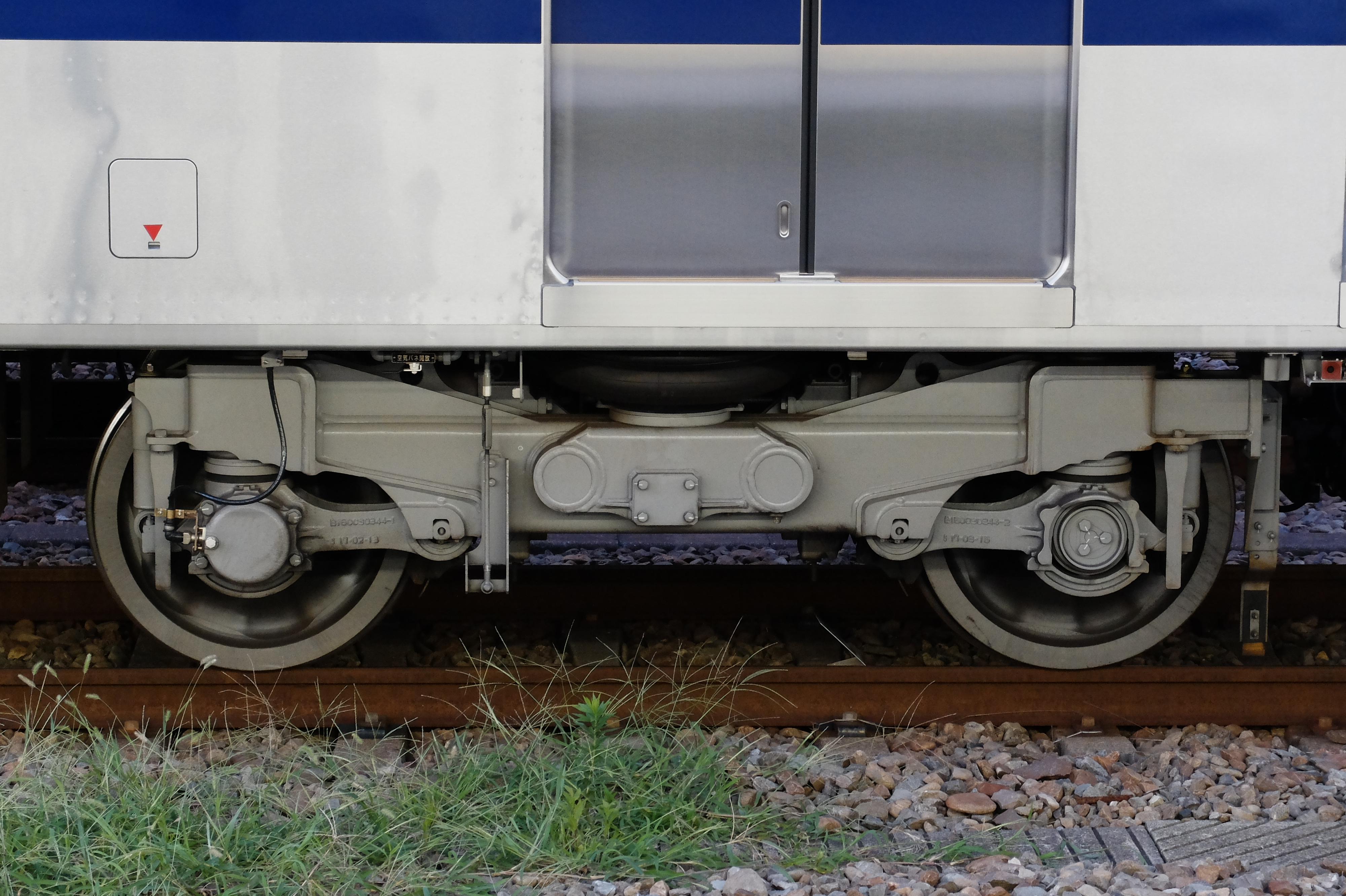 A TS-1018CD trailer bogie on a Keio 5000 series EMU at Takahatafudō Station